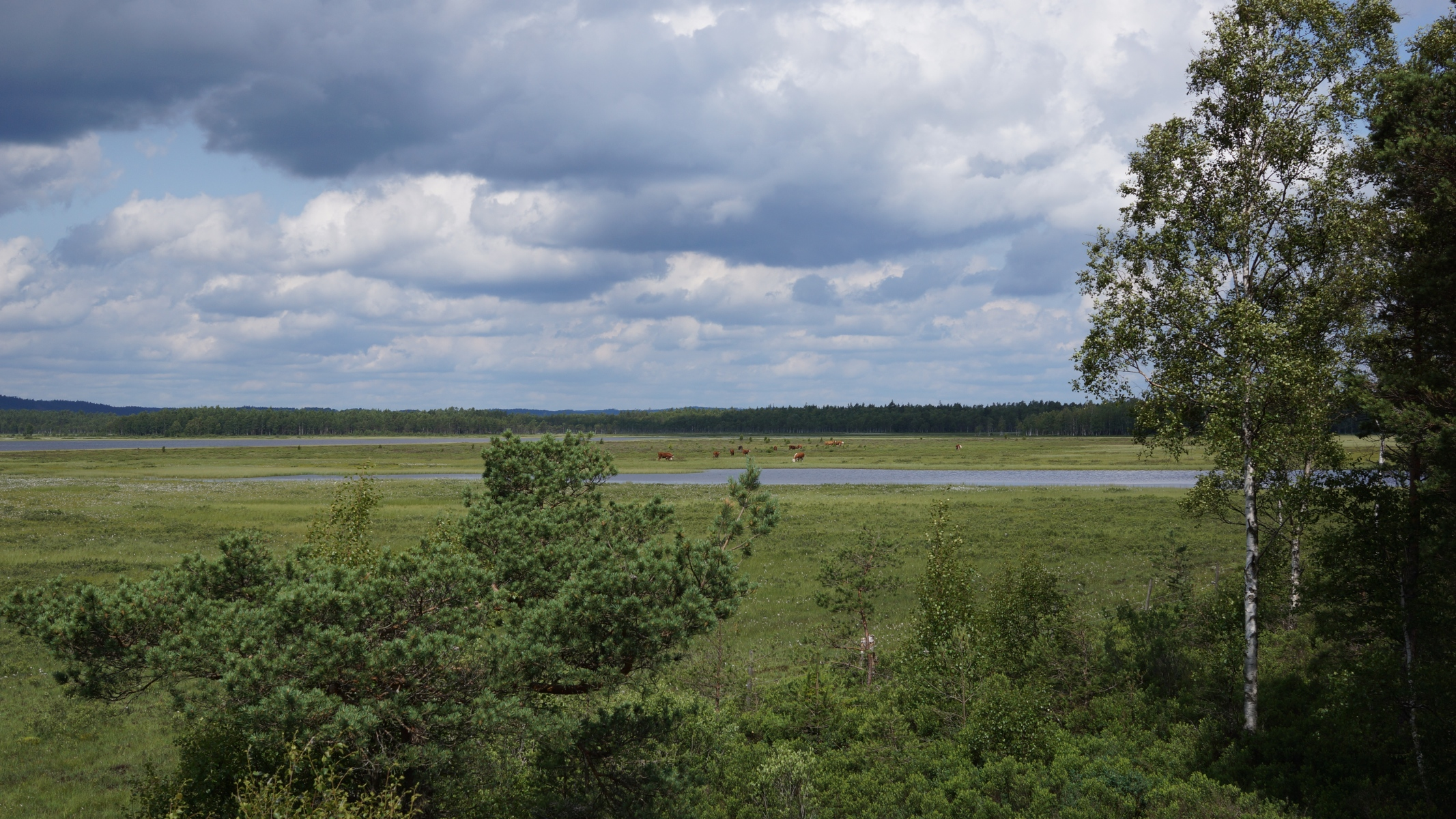 Cows grazing in Store Mosse national park (to maintain the meadows around Kävsjön lake)